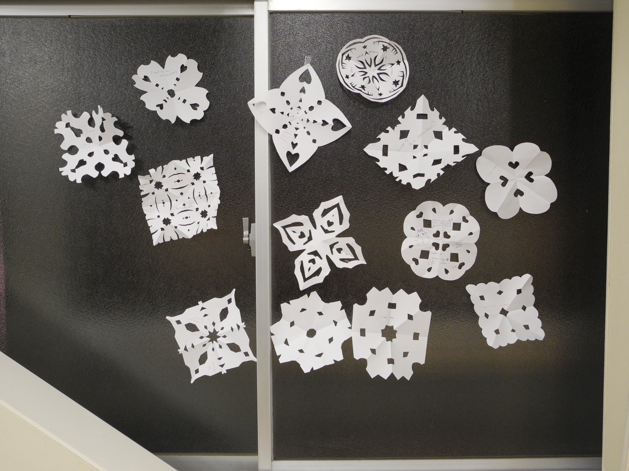 Paper snowflakes taped to a window.